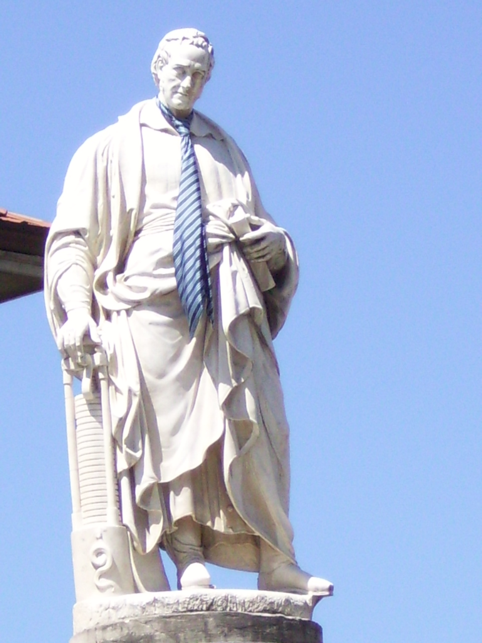 Alessandro Volta with tie.